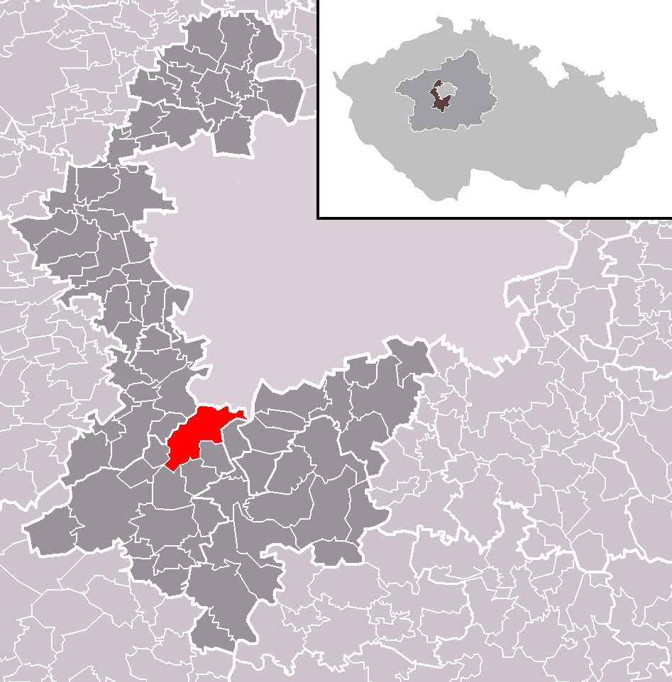 Location of Jíloviště municipality within Prague-West District and administrative area of Černošice as a Municipality with Extended Competence.